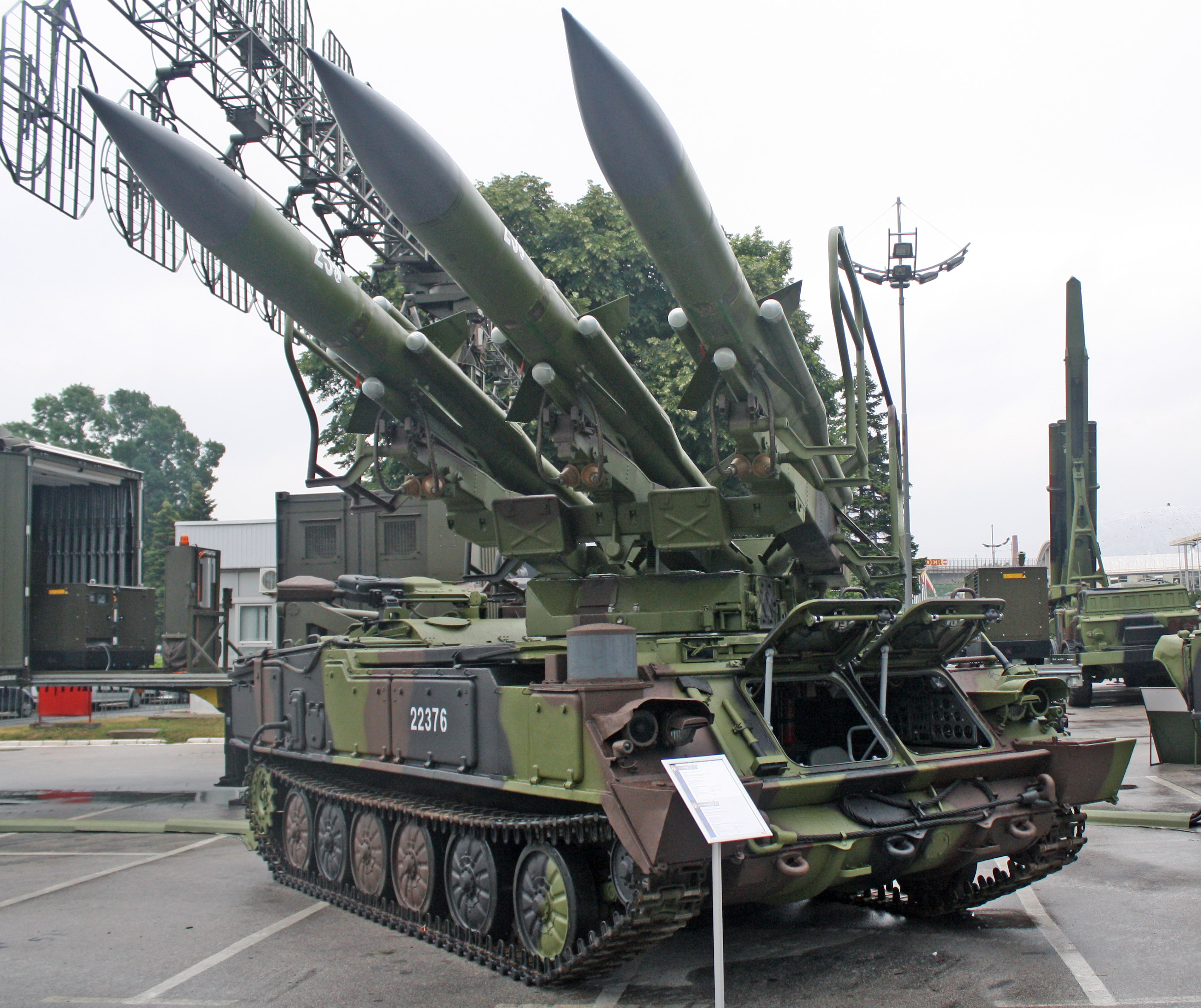 2K12 Kub SAM modernized with modified R-60 and R-73E AA missiles of Serbian Army 250th Air Defense Brigade on display at "Partner 2015" military fair.